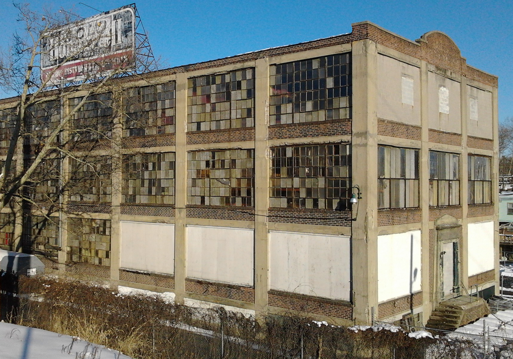 Shot of the old Brown Instruments/Honeywell Factory in North Philadelphia near Fern Rock Transportation Center